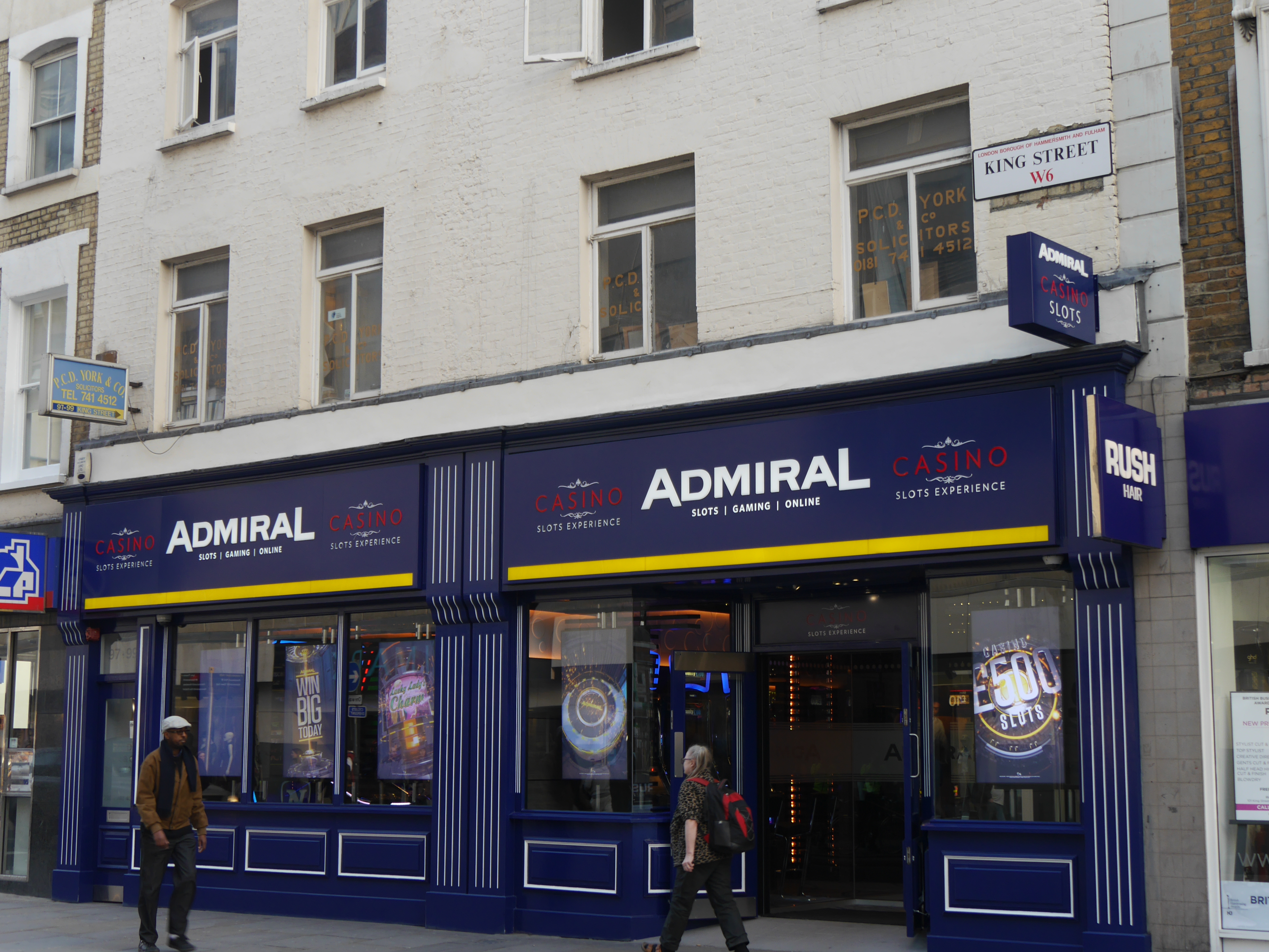 King Street, Hammersmith